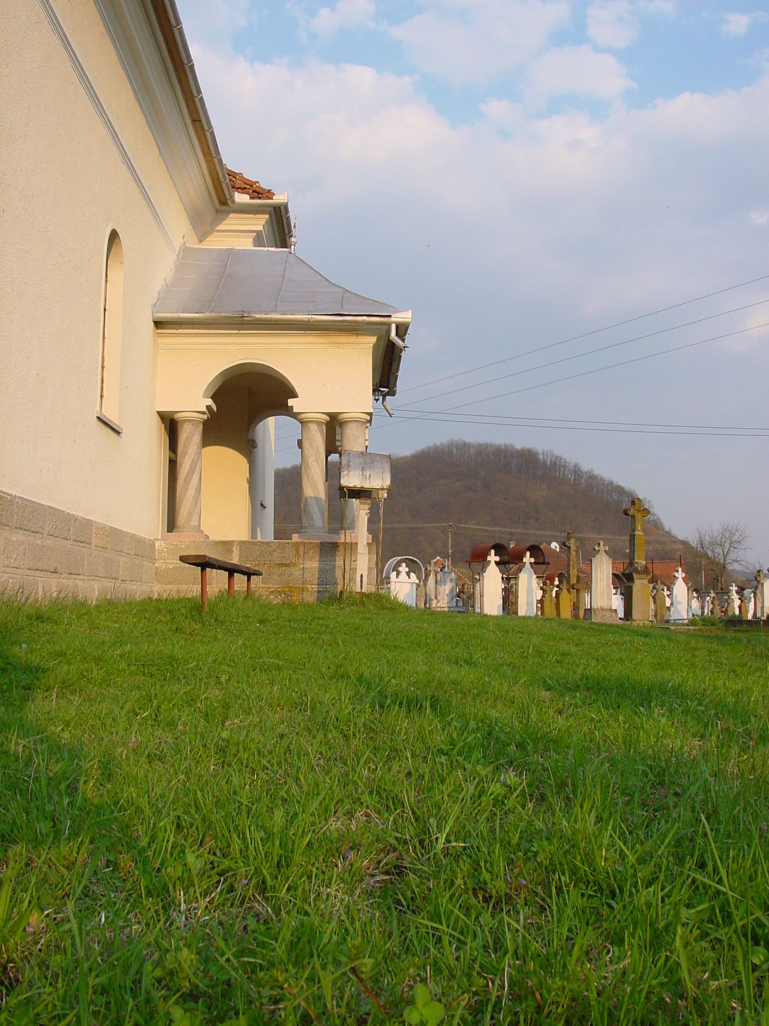 Foto from Risca